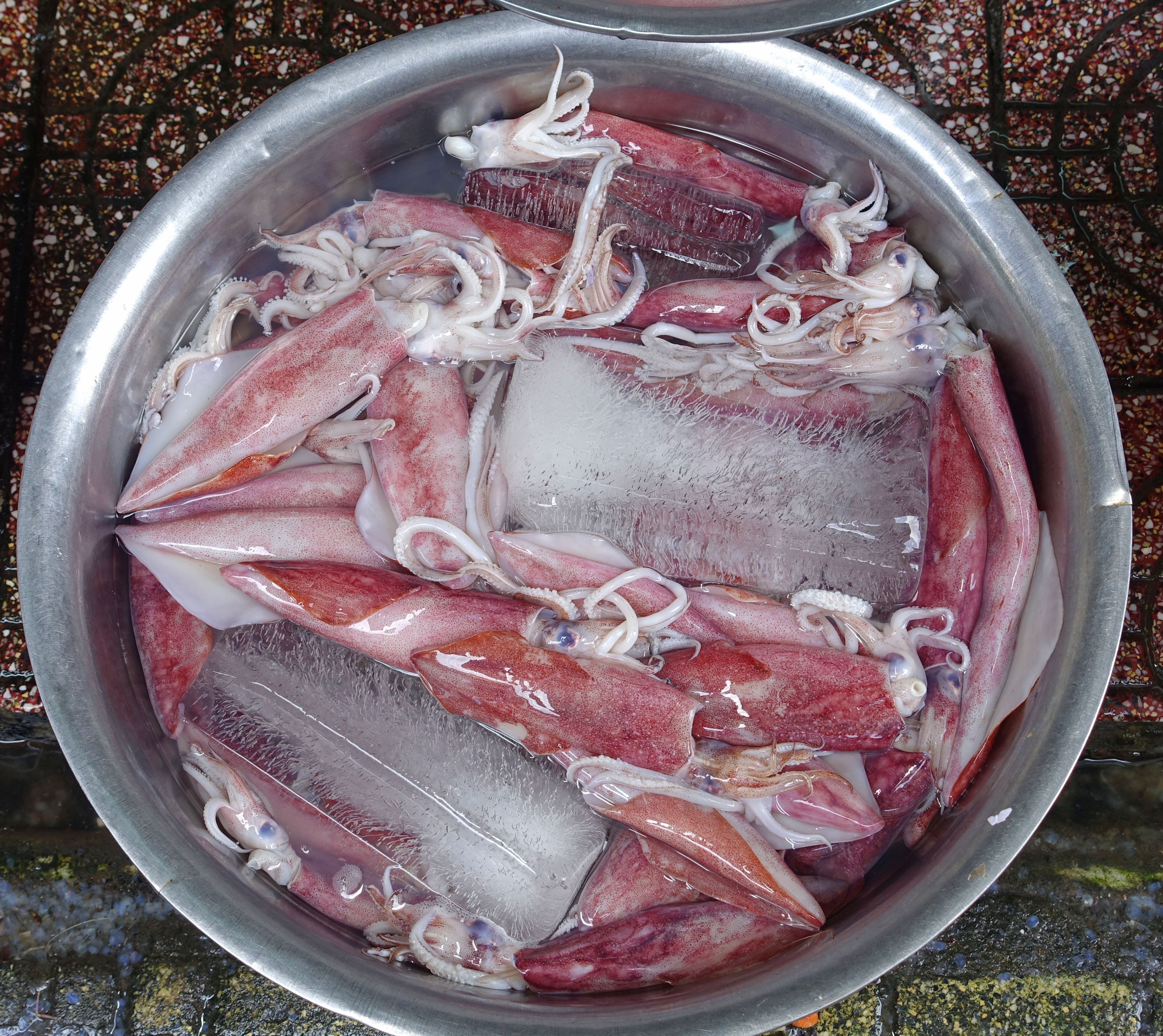 Seafood in Bến Thành Market (Chợ Bến Thành) - Ho Chi Minh City, Vietnam.